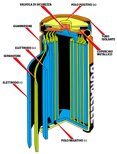 Schema batteria ibrida